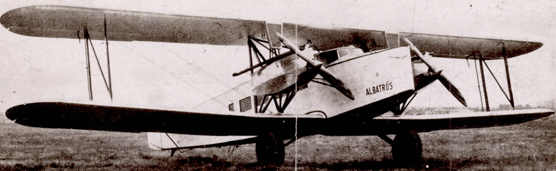 Albatros L 73 exterior photo from NACA Aircraft Circular No.16